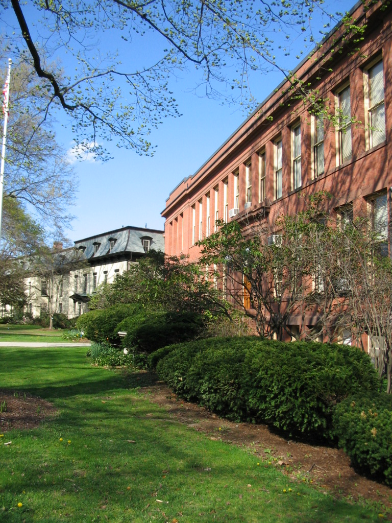 The Campus of the Clarke School for the Deaf